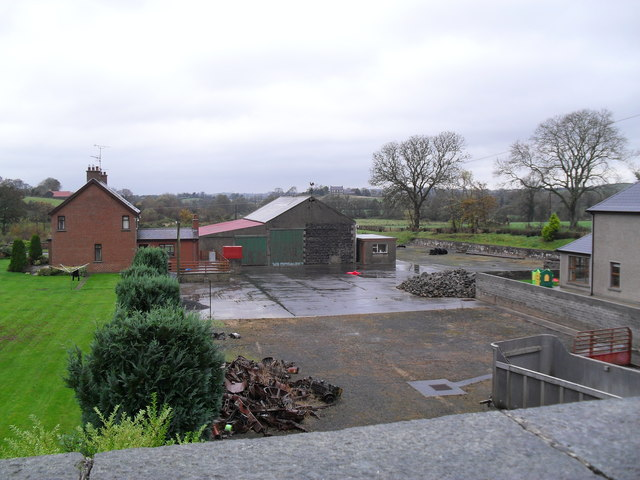 Site of Katesbridge Station Katesbridge Station opened in 1880 as an intermediate station on the Knockmore Jct to Castlewellan Great Northern Railway (Ireland) line. It closed, with the rest of the line south of Banbridge, in May 1955. The trackbed ran between the goods shed (now a barn) and the red brick house (this is likely a replacement dwelling) - the hedge marks it out quite well. The view would have been towards Banbridge.